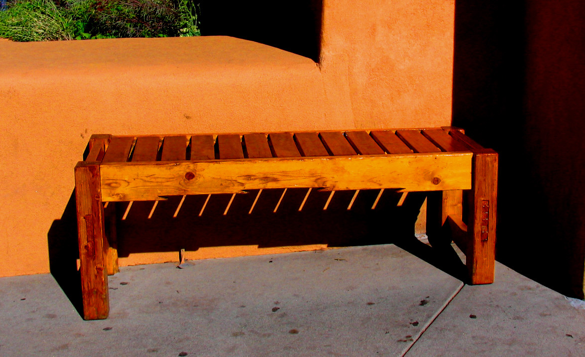 Wooden bench in Santa Fe, New Mexicobench